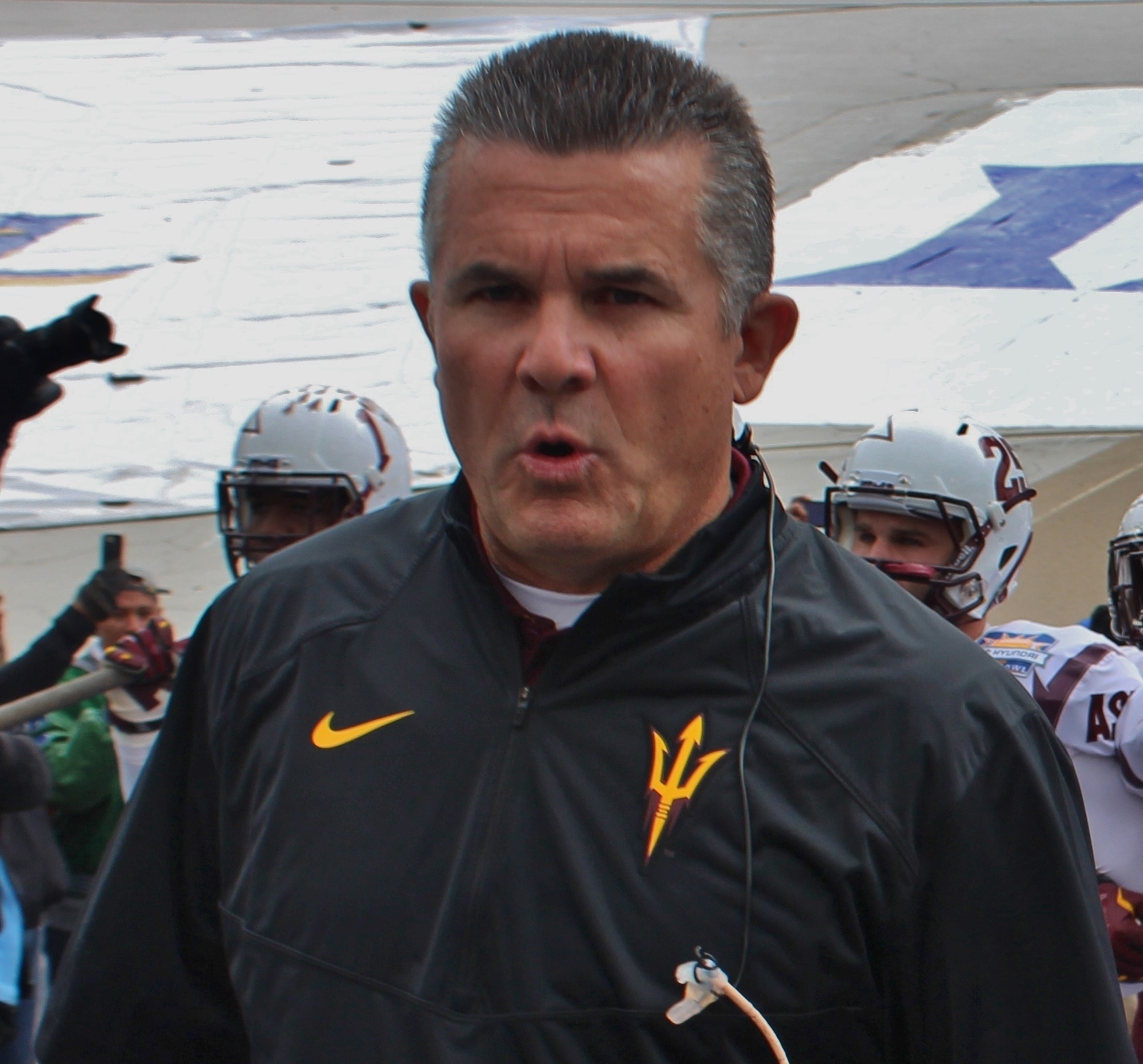 Arizona State University head coach Todd Graham during the 2014 Sun Bowl.